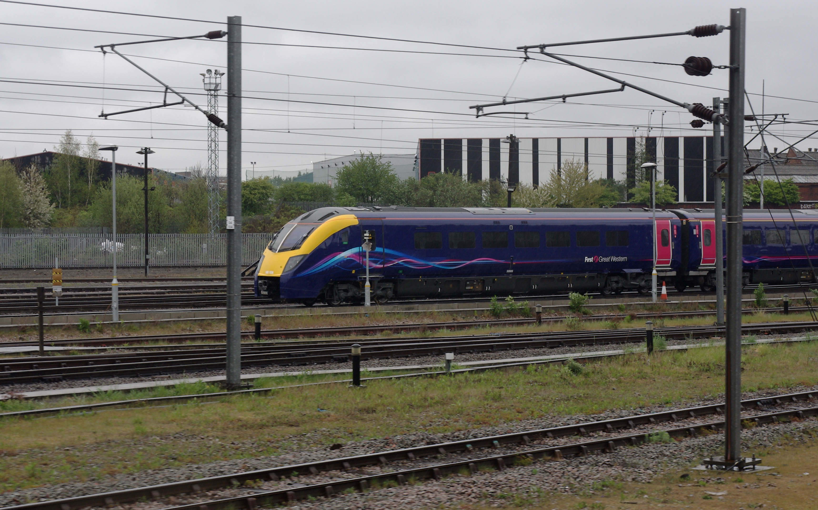 Newly refurbished First Great Western Class 180 "Adelante" DMU 180106 stands in the sidings at Old Oak Common TMD.